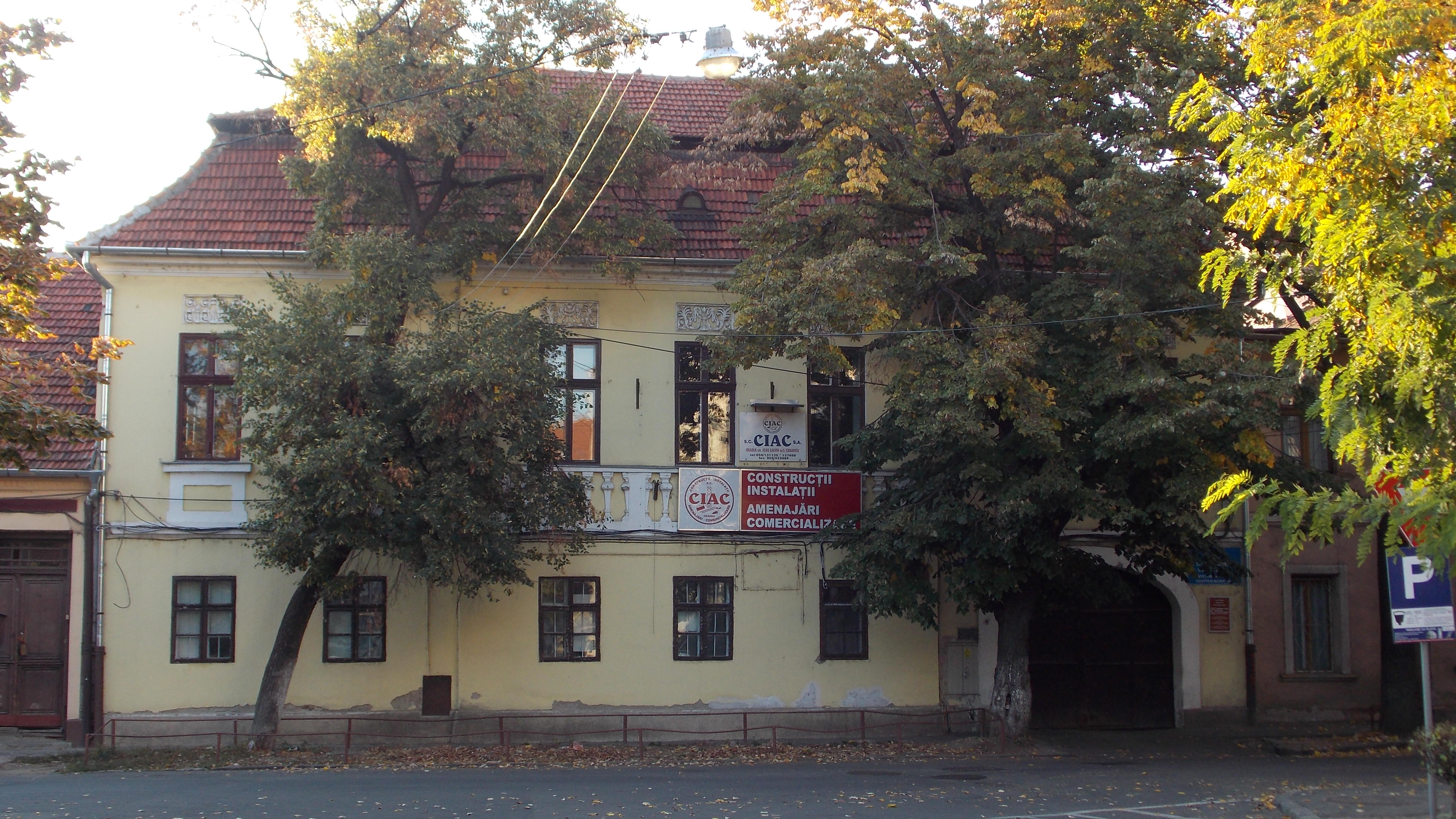 Rhedey House - Oradea, RomaniaRomână: Casa Rhedey, Oradea